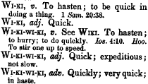 Definition of 'wiki' in Andrews' Hawaiian dictionary (1865)